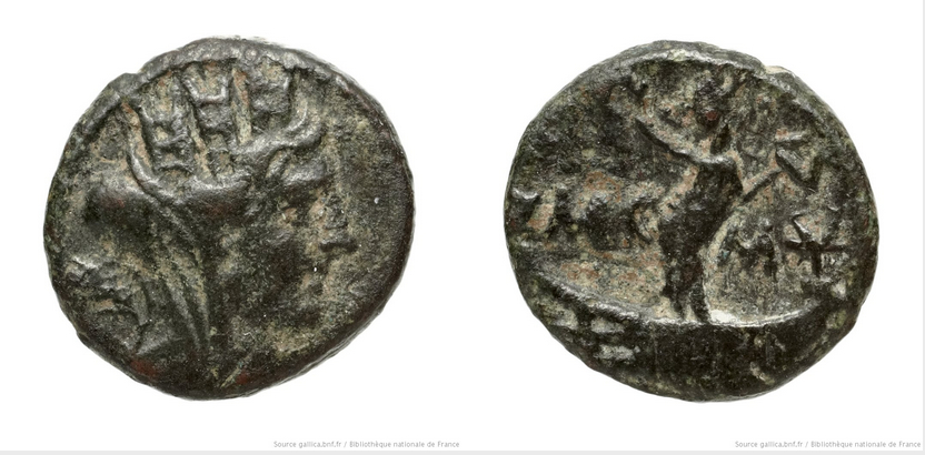 Bronze coin minted in Tyre during the reign of Roman Emperor Hadrian (117-138 CE), with the head of deity Tyche (Fortuna), wearing a crown of towers and a veil. The reverse depicts the Phoenician goddess Astarte on a galley, holding a crown in the right hand and a scepter in the left hand; in the left field.